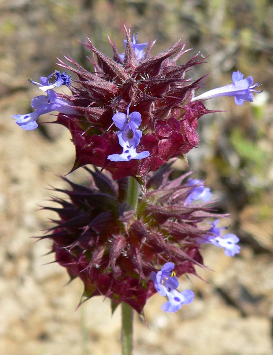 Photo of Salvia columbariae (chia) in Palm Canyon, California